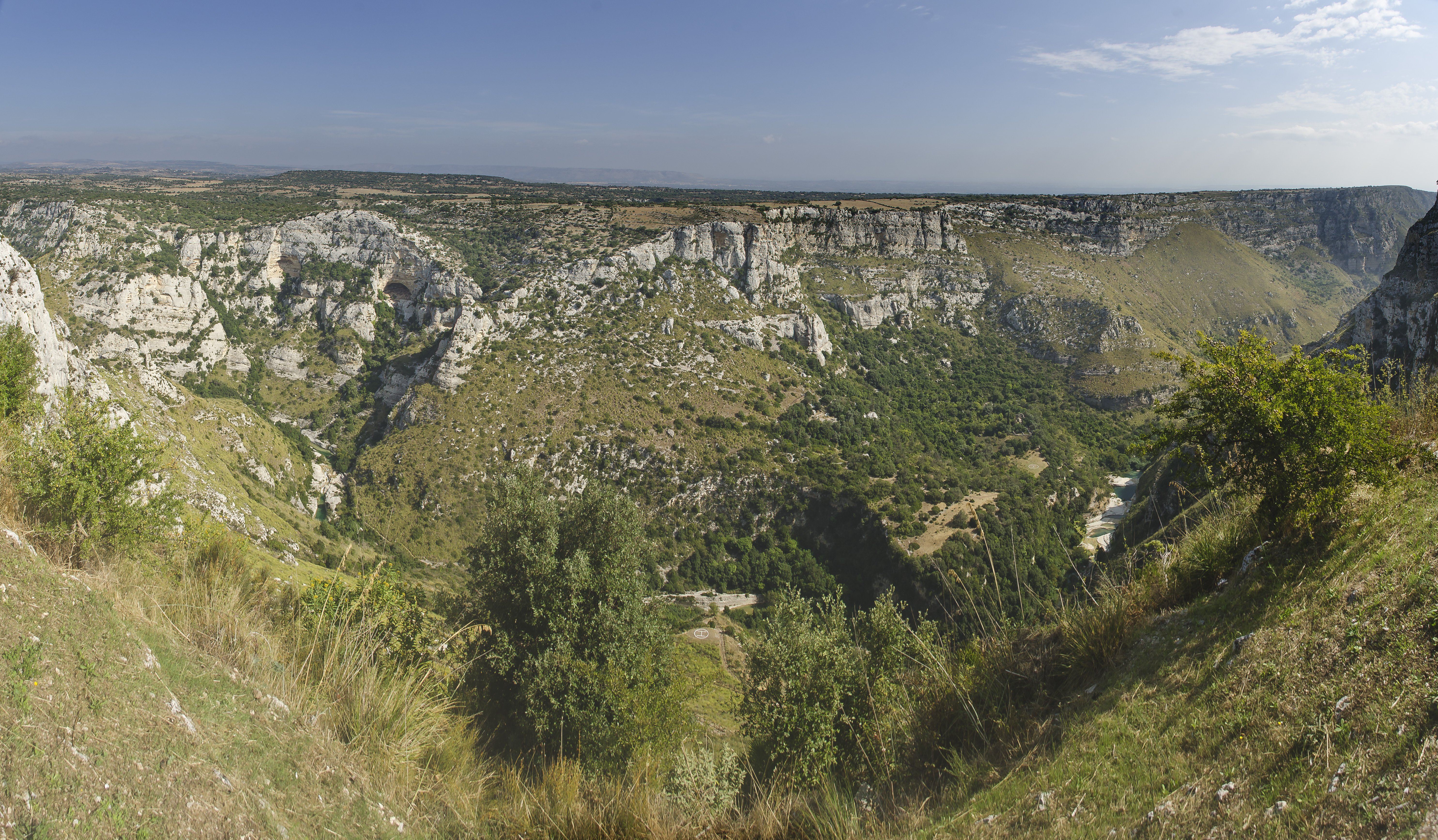 Cavagrande del Cassibile near Noto, Sicily